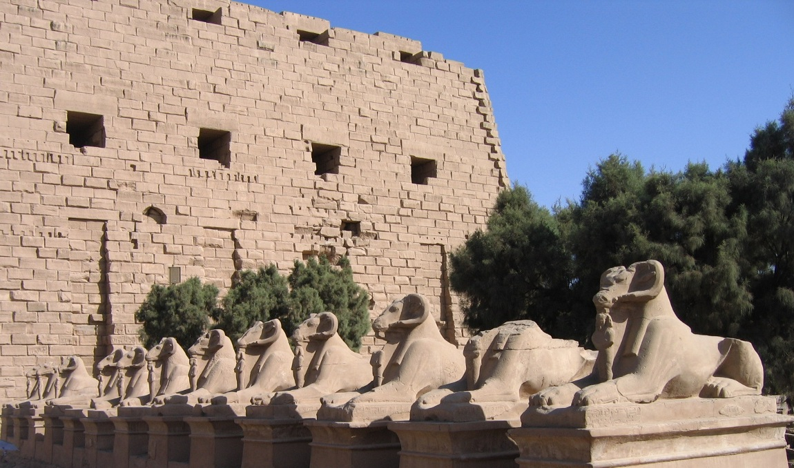 Karnak Temple Complex at Luxor, Egypt